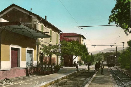 Godiasco railway station